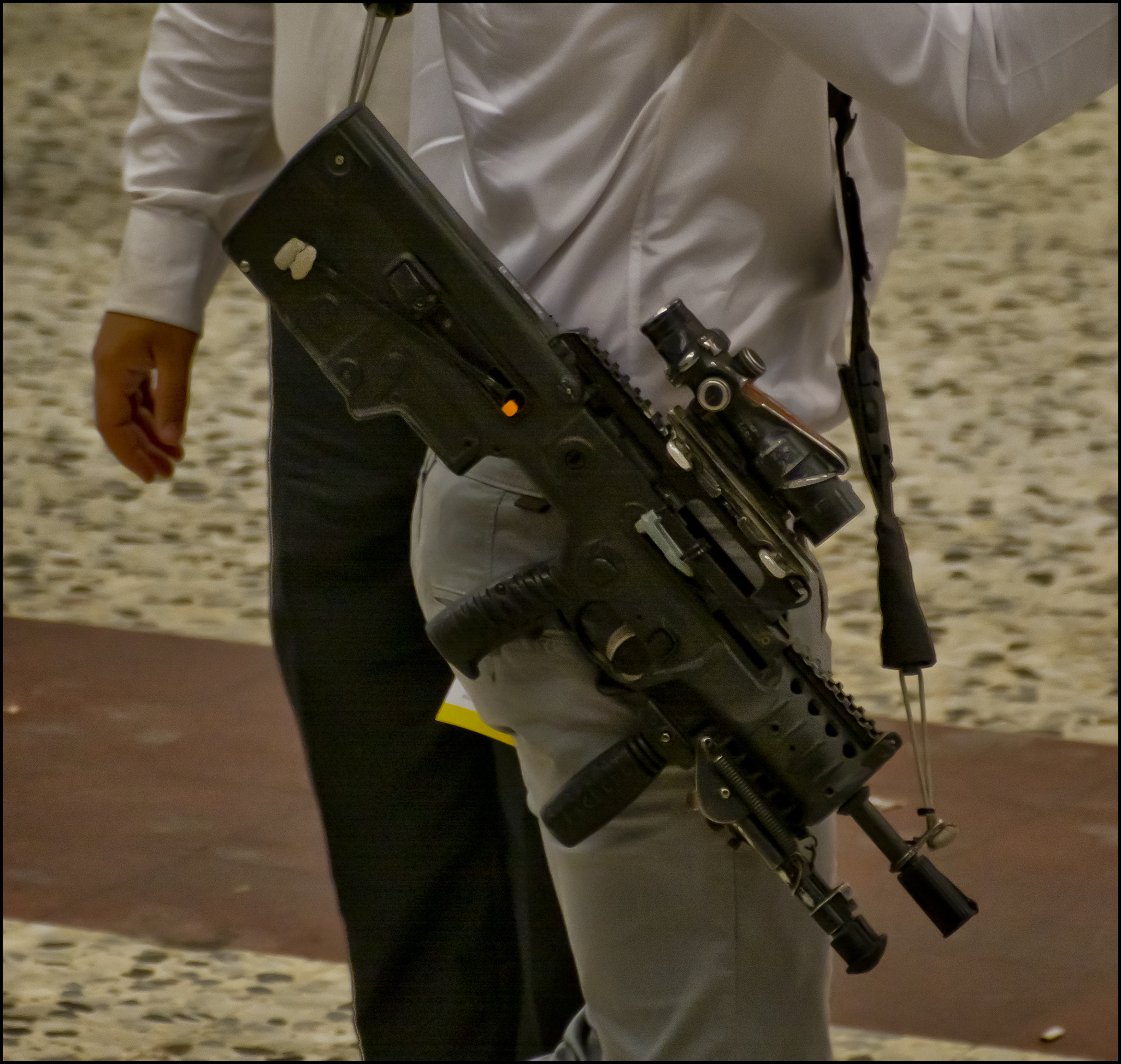 IWI Micro-Tavor Kalaim - X-95L